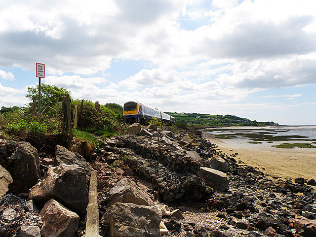 Railway by the Sea A Class 175 DMU heads north for Carmarthen after stopping at Ferryside, seen in the distance. The railway here runs alongside the River Towy as it flows into the sea.